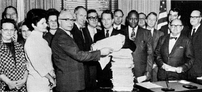 Statewide leaders of Concerned Citizens for Clean Air and Clean Water present [Illinois] Attorney General [William J.] Scott with signatures of 70,000 Illinoisans, supporting Scott's scrackdown on polluters. Chairman Ed Ponder of Chicago presents petitions. Published in Illinois Blue Book, 1967-1968, p. 566.